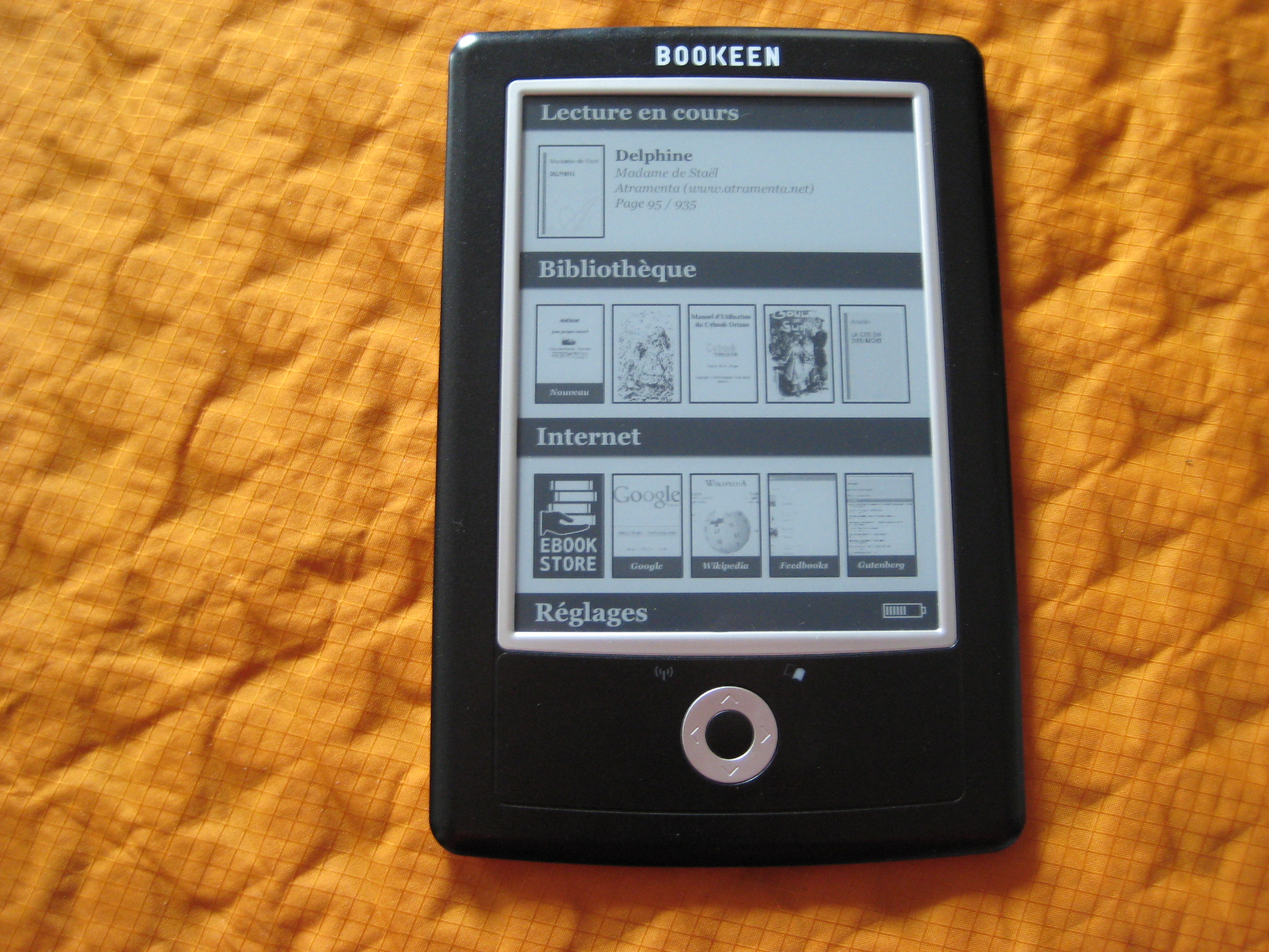 Cybook Orizon Black version. This picture shows the device's home page.